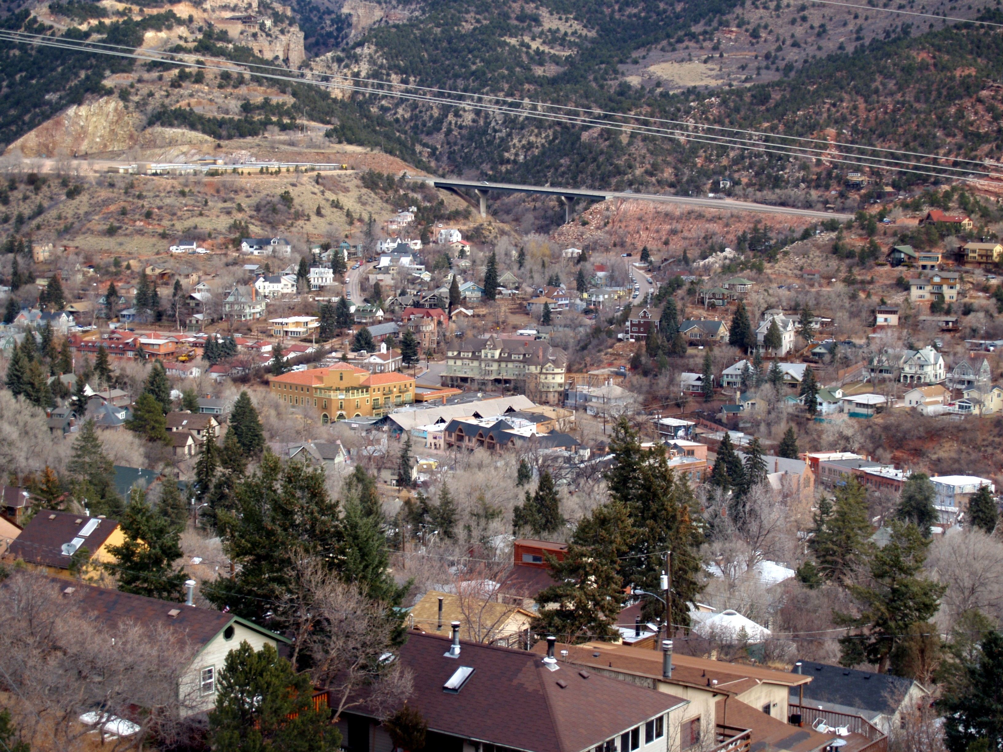 Manitou Springs, Colorado from a mountain trail overlooking the city.